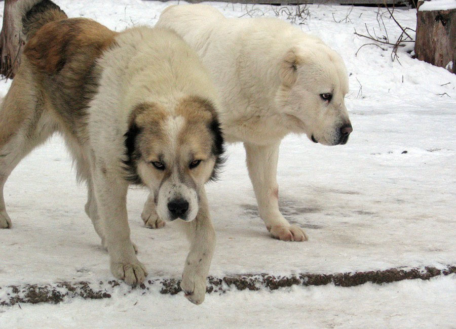 Central Asian Shepherds Sheih (male) and Vagshi (female)